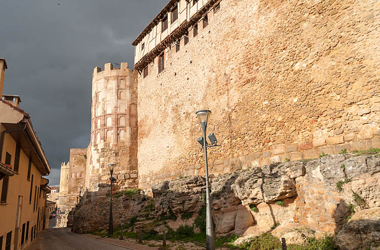 Murallas de Segovia en la judería.